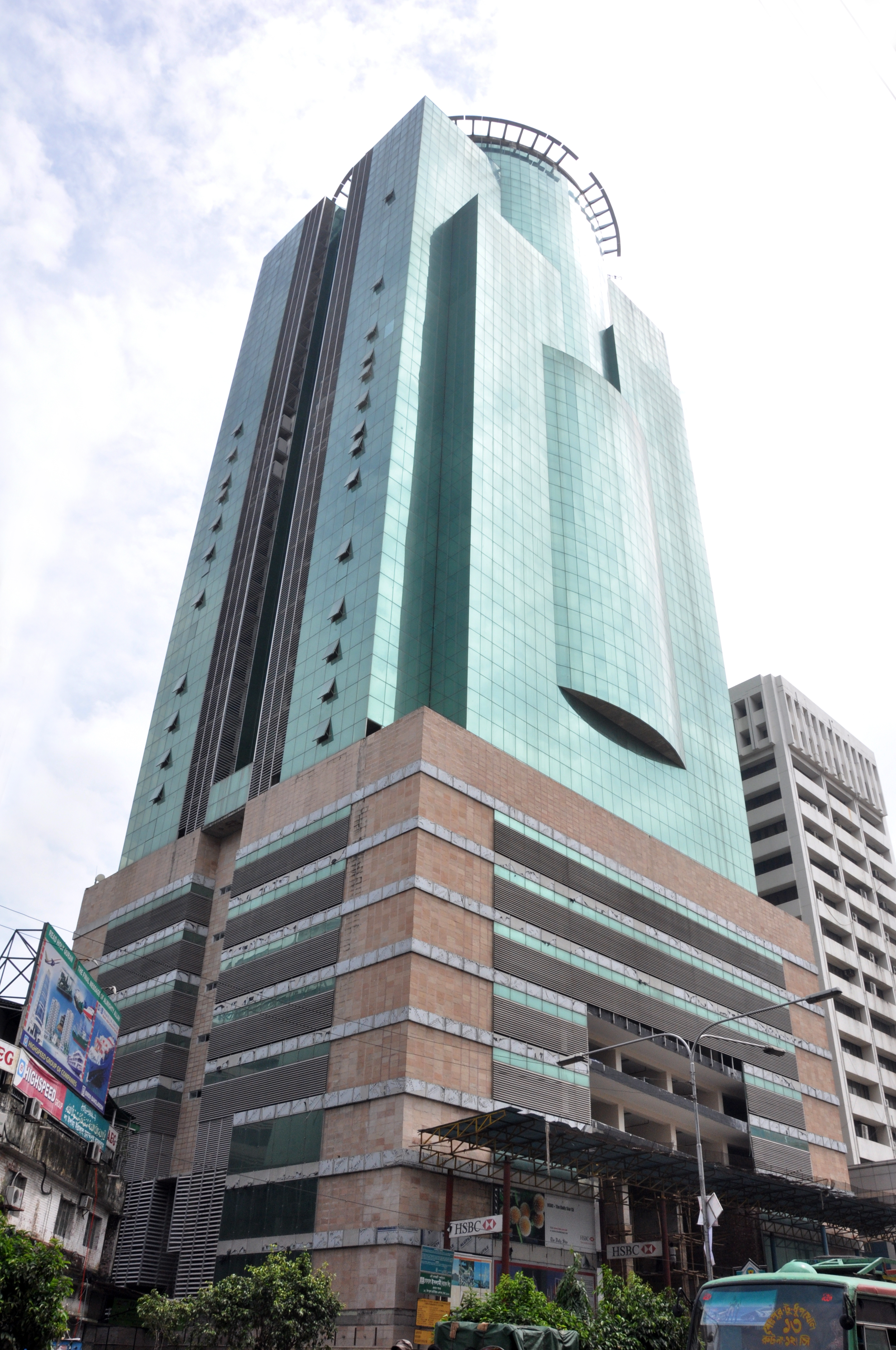 City Centre Dhaka, the tallest Skyscraper ever built in Bangladesh.